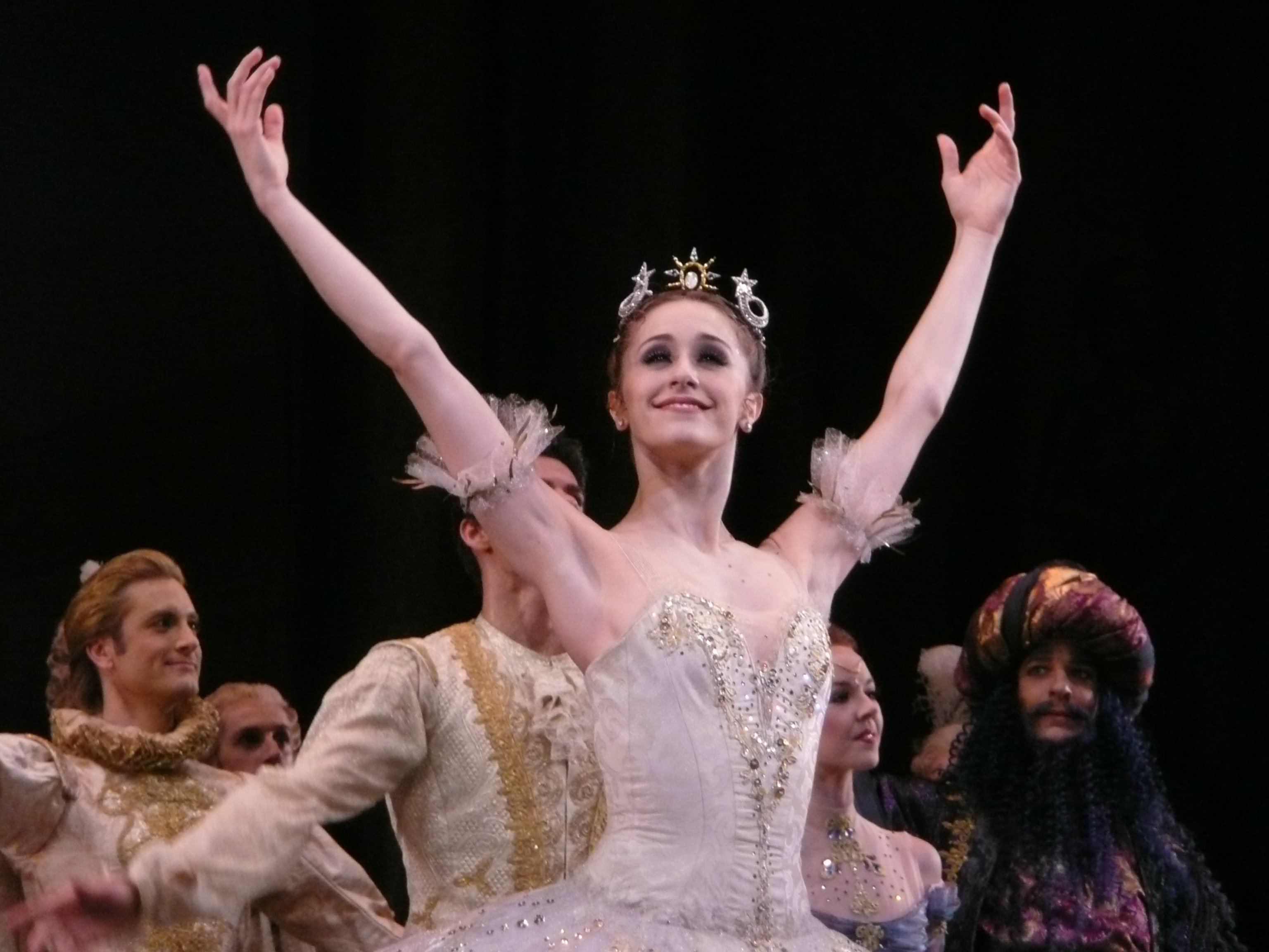 Curtain call Sleeping Beauty ,Royal Ballet April 2008,Ballerina Marianela Nunez